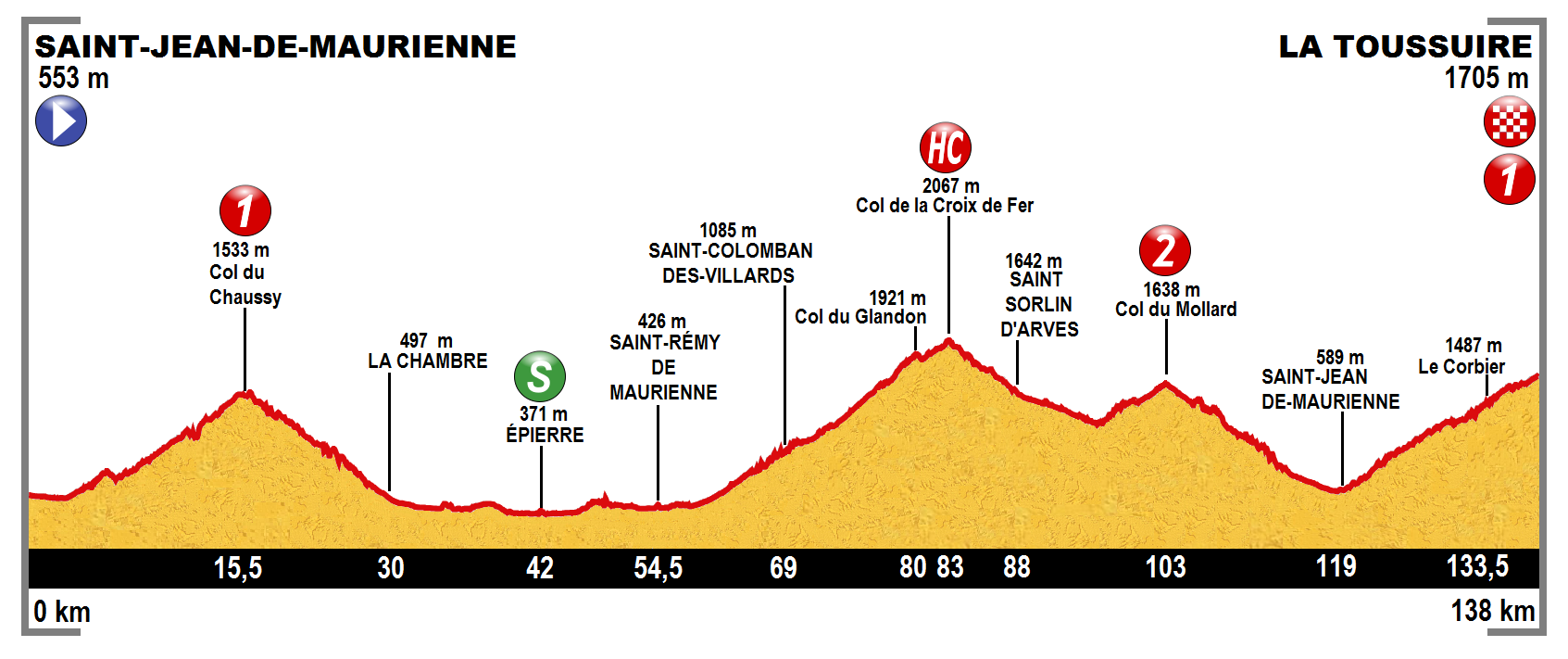 Profile of the 19th stage of the Tour de France 2015